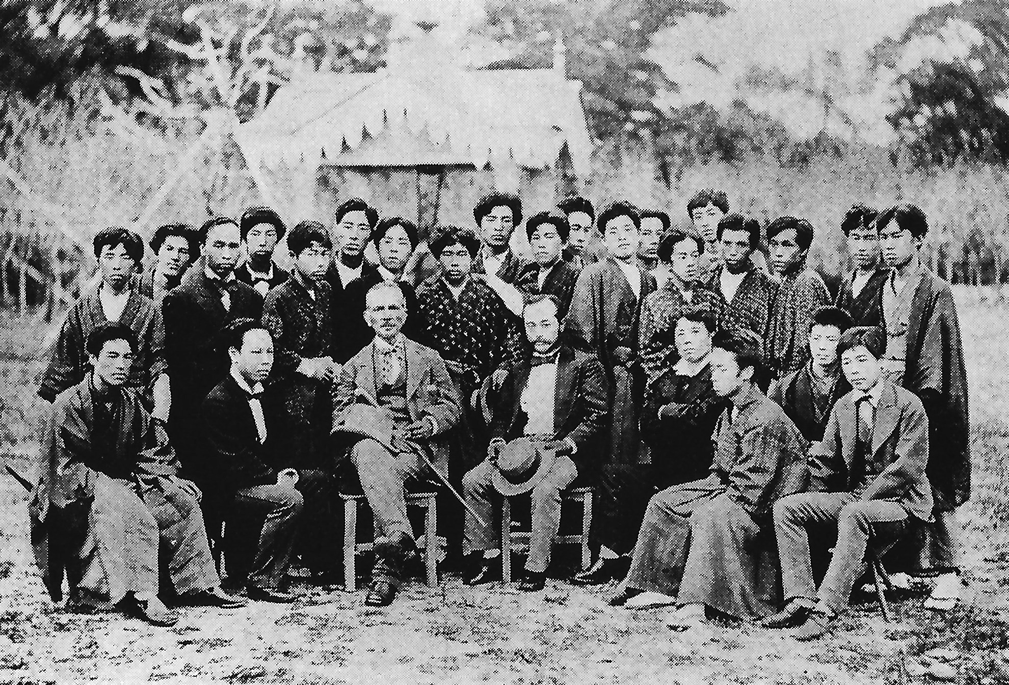 Farewell gathering around Antonio Fontanesi in Tokyo